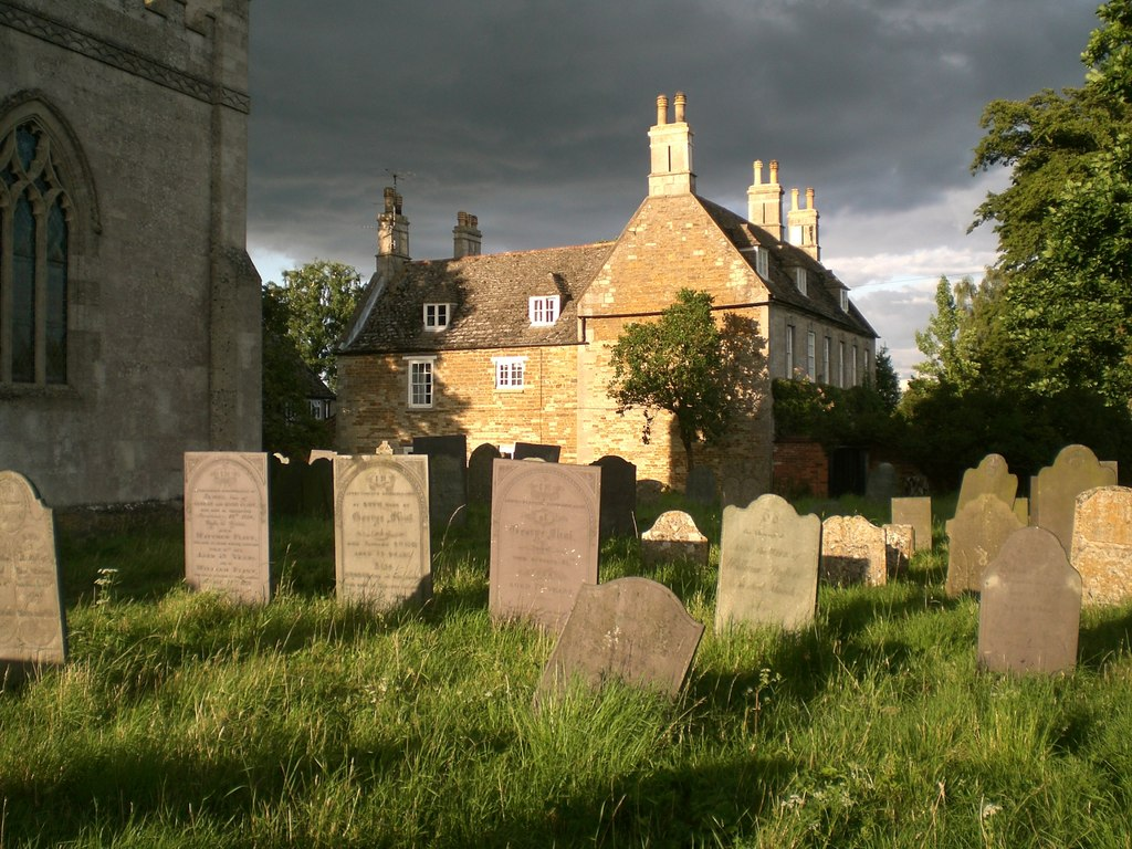 The churchyard and Old Rectory at Teigh, Rutland. Seen in the slanting light of a July evening, the stonework of the rectory contrasting with a dark, moody sky. In the foreground, old slate tombstones - the slate probably quarried at Swithland near Loughborough. The rectory roof, on the other hand, seems to have a covering of 'Collyweston slates' - actually limestone, but split into slabs to serve as roofing.